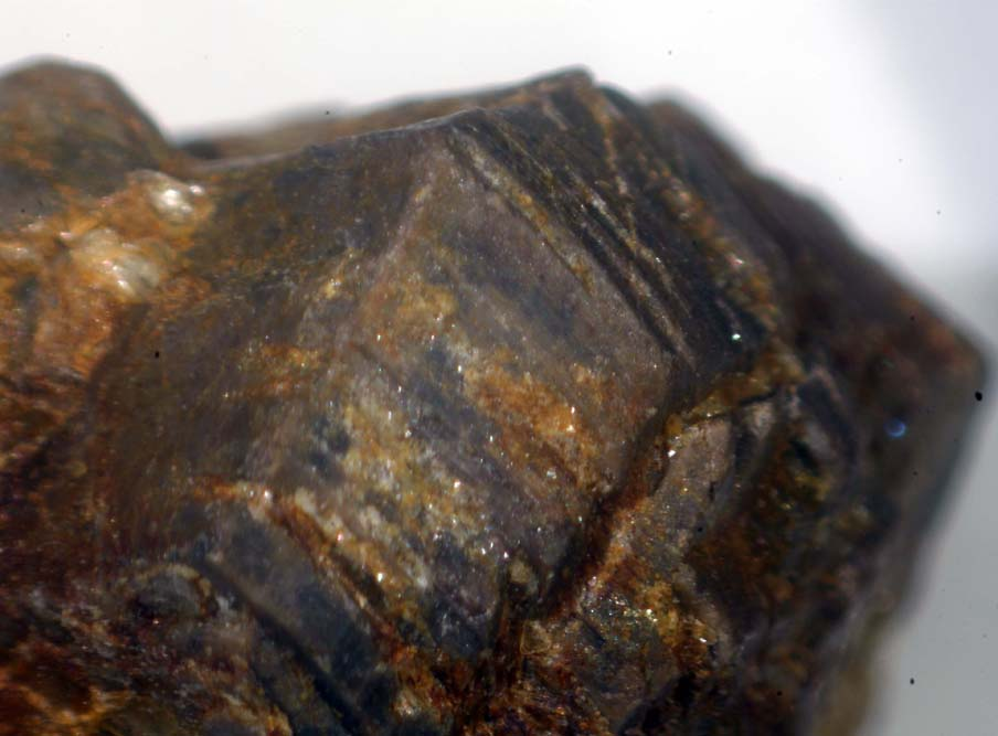 Brown isolated crystal group of alvite, a variety of zircon rich in Hafnium (Hf). Hafnium is one of the rarest chemical elements in minerals, since only one mineral (from more than 5000 known minerals) have hafnium in their chemical composition (hafnon). From: Tangen Feldspar Mine, Kragerø, Telemark, Norway.